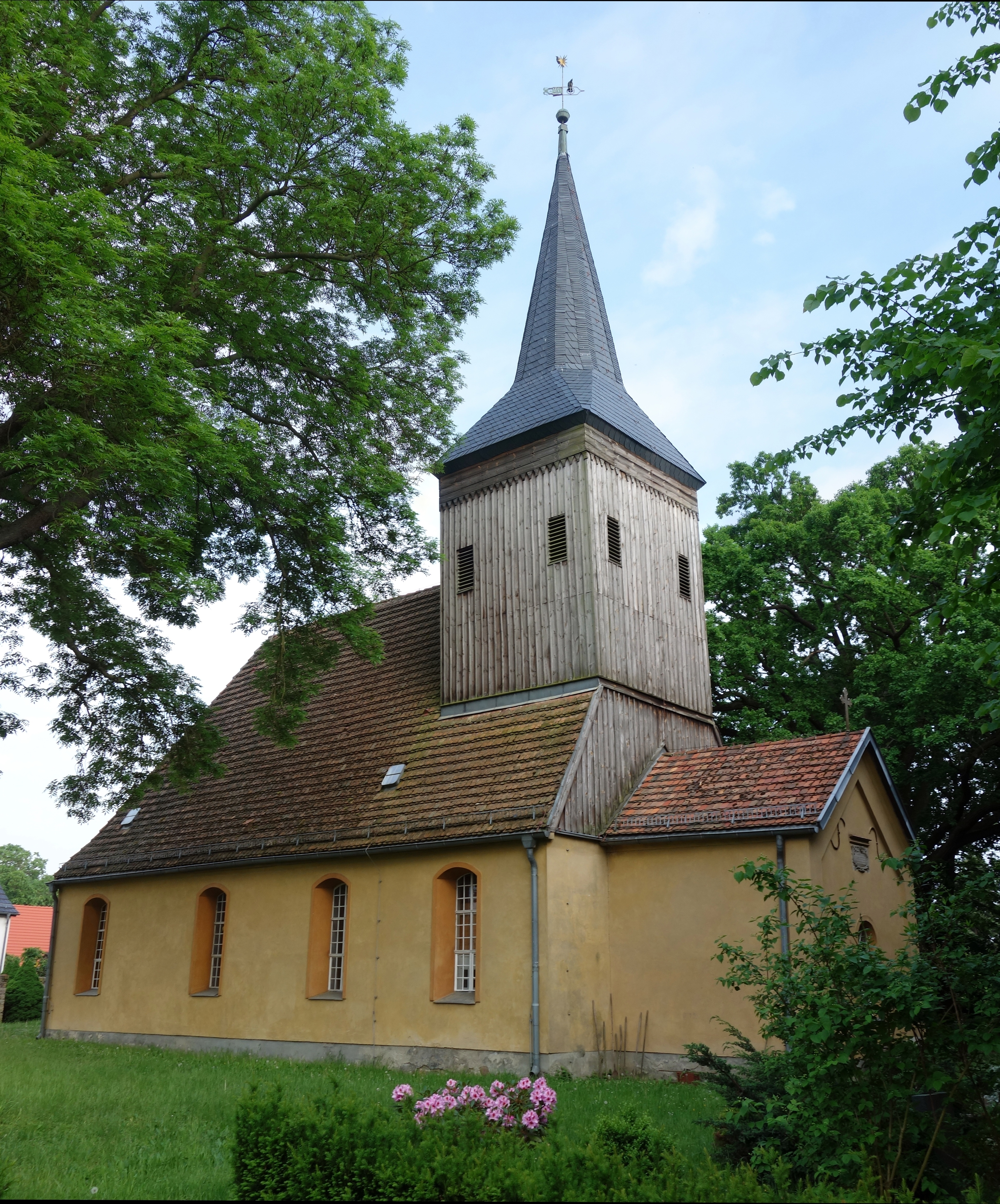 North-western view of church in Satzkorn, Potsdam municipality, Havelland district, Brandenburg state, Germany